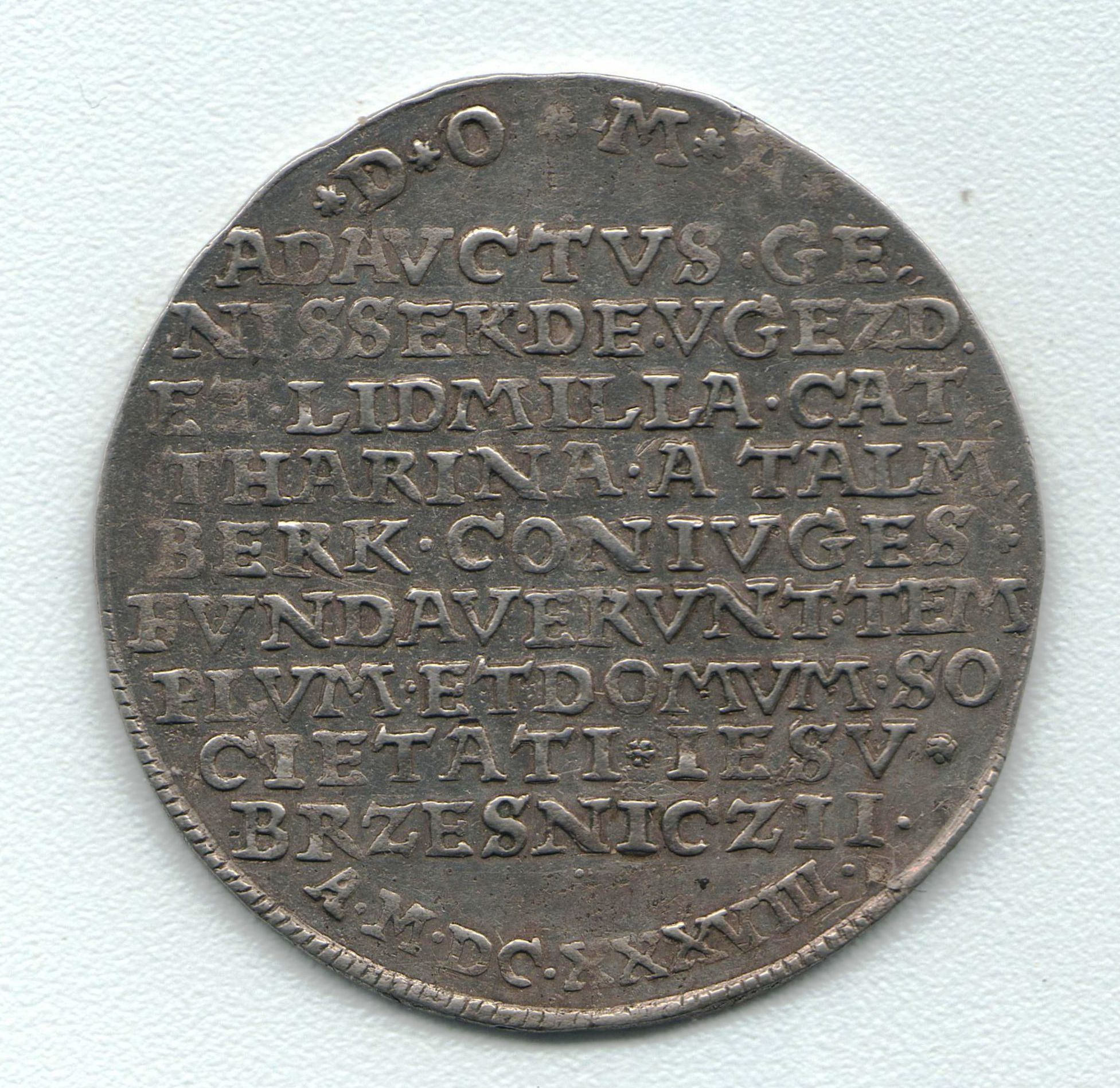 Březnice church foundation medal 1638